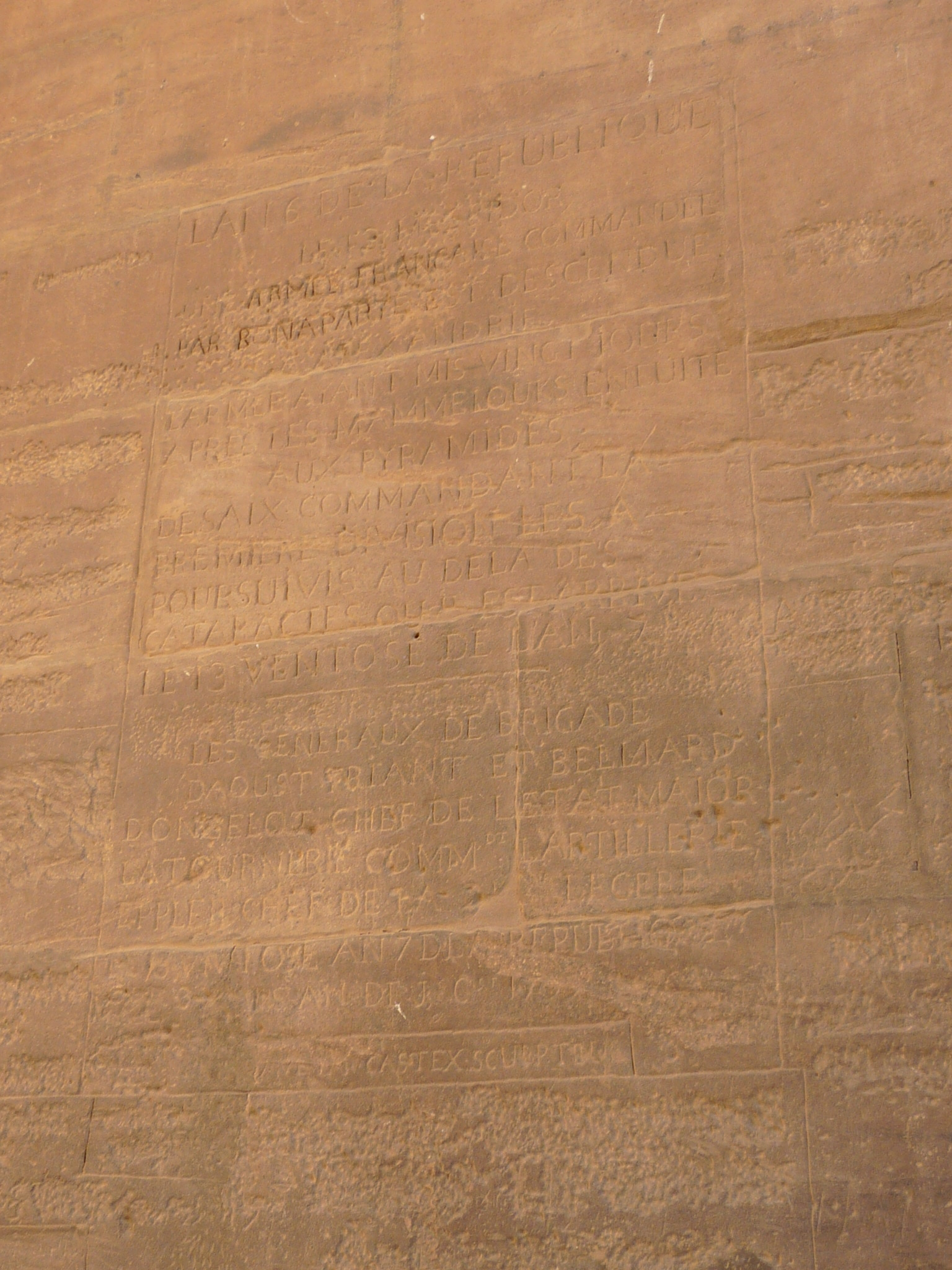 Napoleonian text of Campaign in Egypt (1798–1801), Isis Temple, Philae Island, Egypt